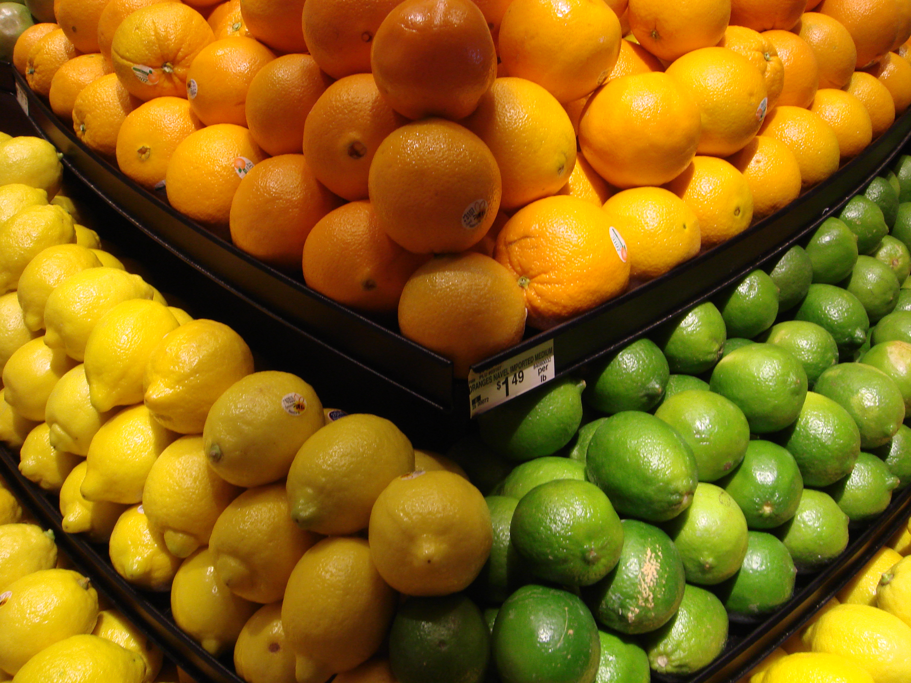 oranges , lemons and limes on the citrus table at work